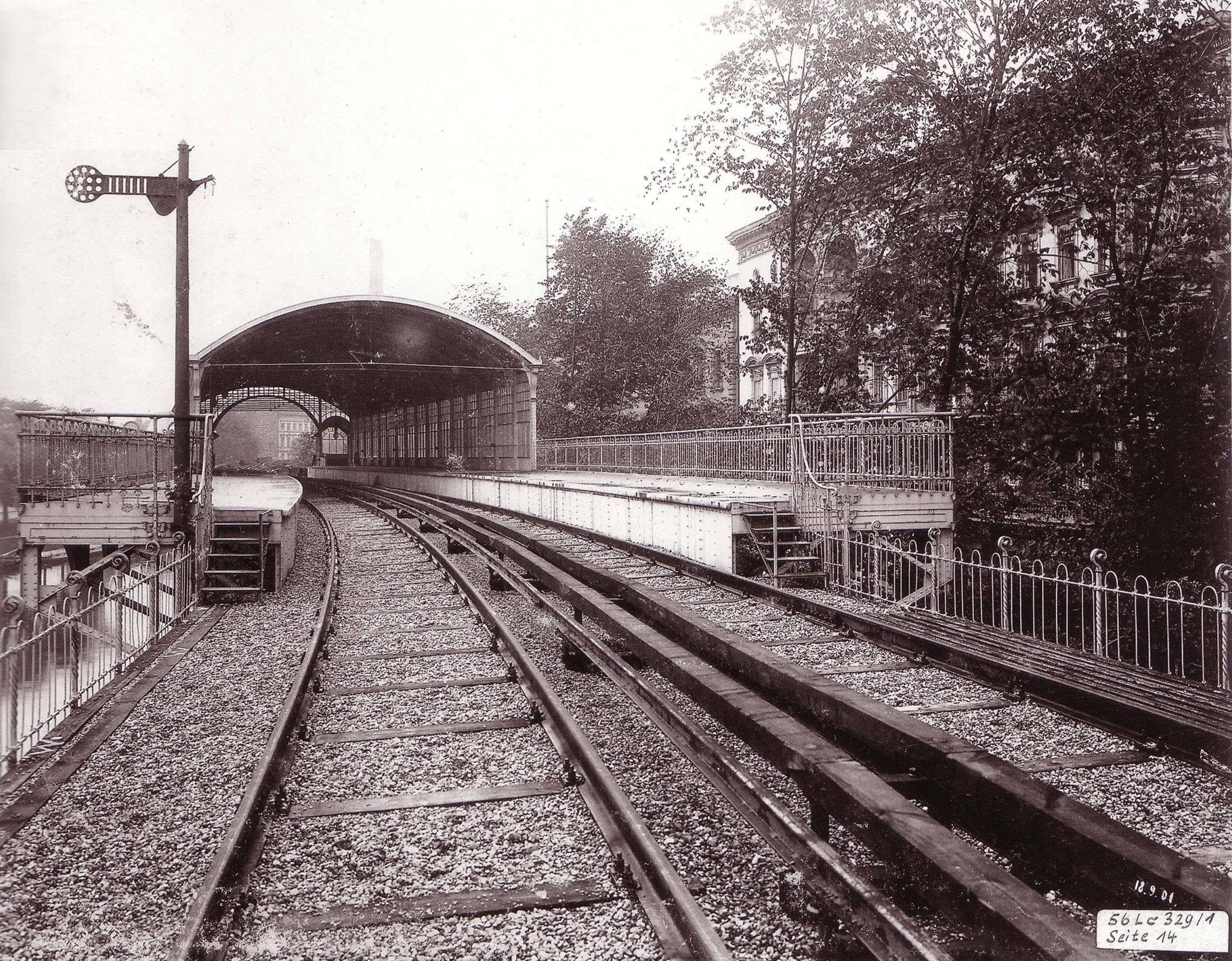 the elevated U-Bahn station Möckernbrücke in Berlin